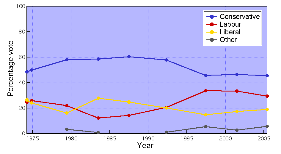 Election results for Blaby constituency from its creation in 1974 to the 2005 general election. © Jeremy Atherton 2006.